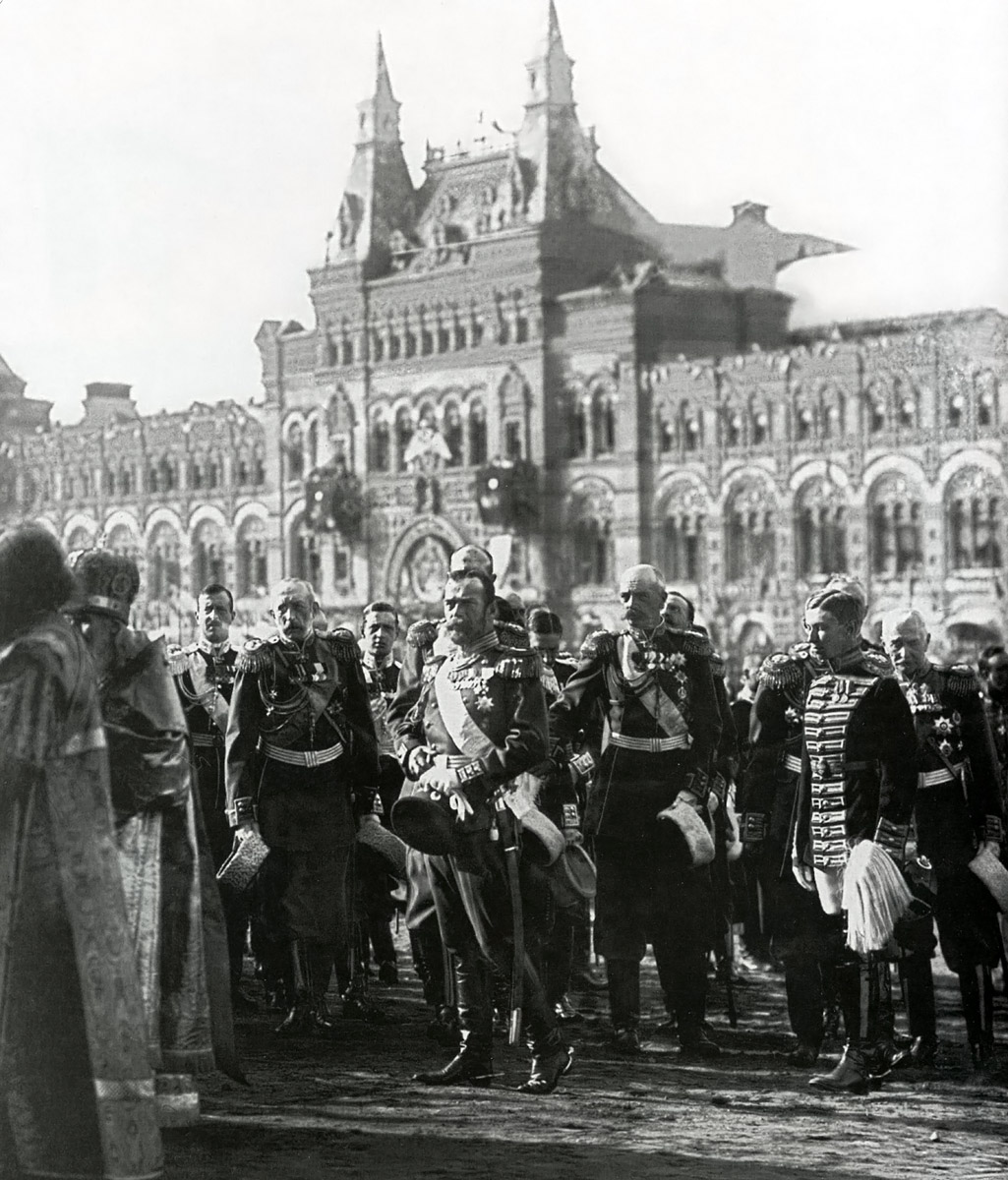 Nicholas II of Russia on Red Square. 1913, celebrating 300 years of the Romanov dynasty.